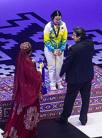 Tan Zhongyi receives her medal